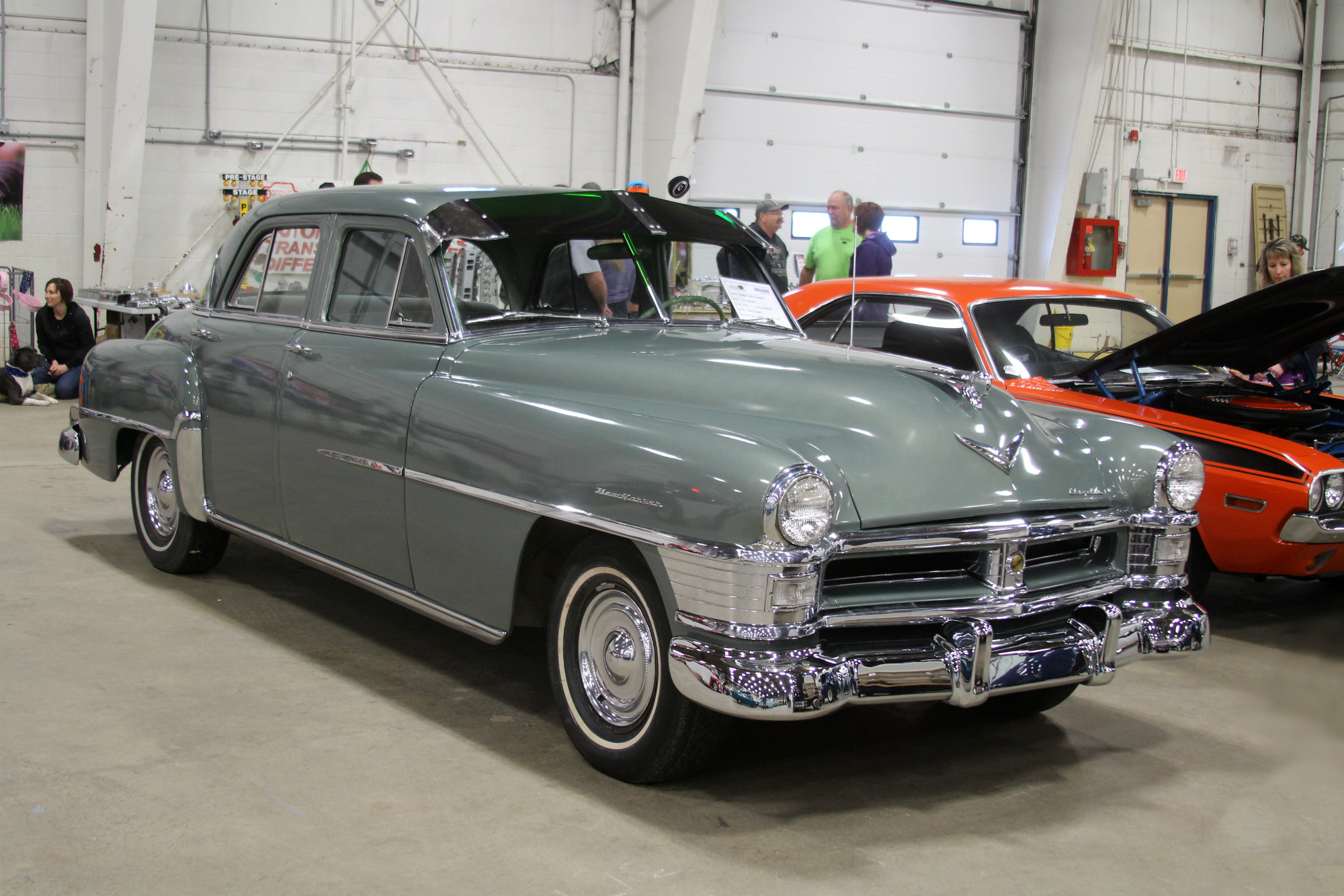 1951 Chrysler New Yorker